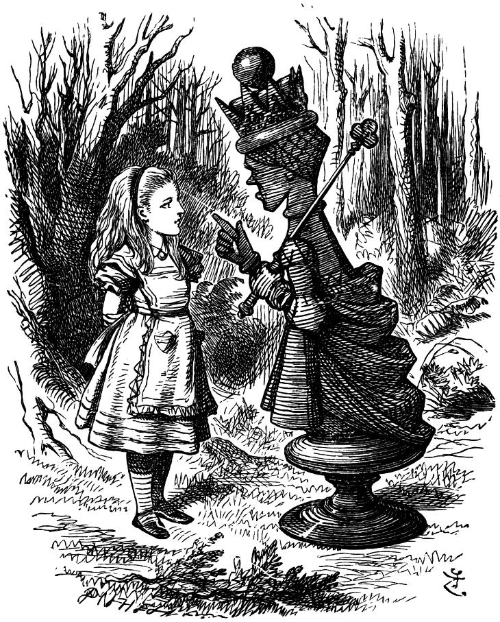 Illustration by John Tenniel of the Red Queen lecturing Alice for Lewis Carroll's "Through The Looking Glass"